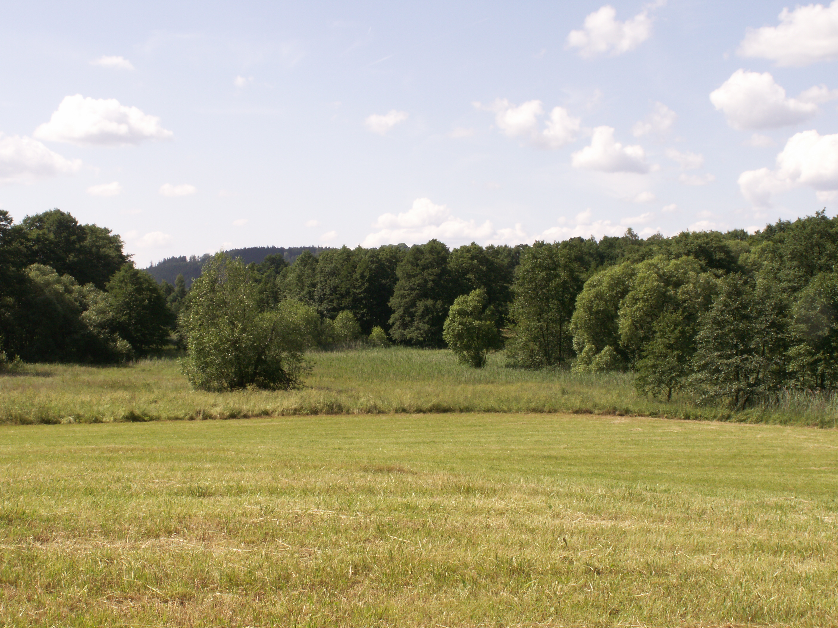 KONICA MINOLTA DIGITAL CAMERA, přírodní rezervace Mokřadlo, k.ú. Bezděkov, Podmoklany a Sloupno, okres Havlíčkův Brod